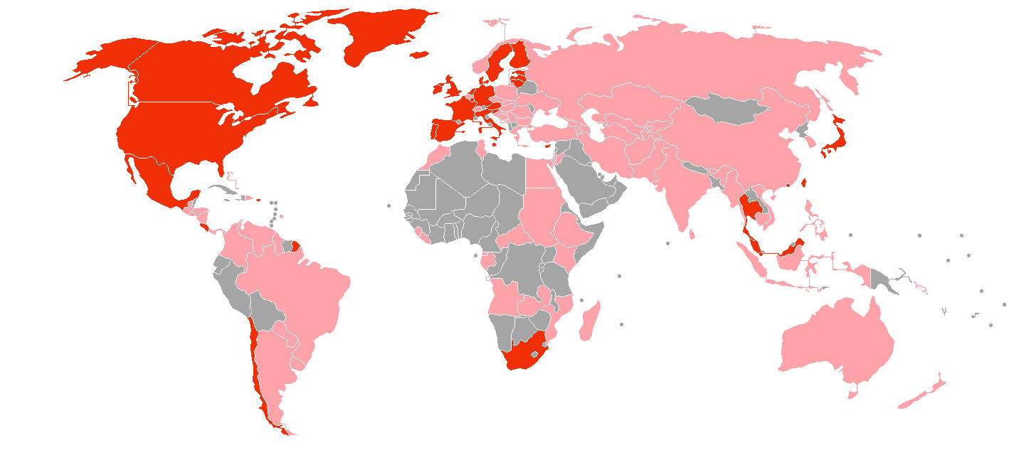 Countries in recession as of 2009.